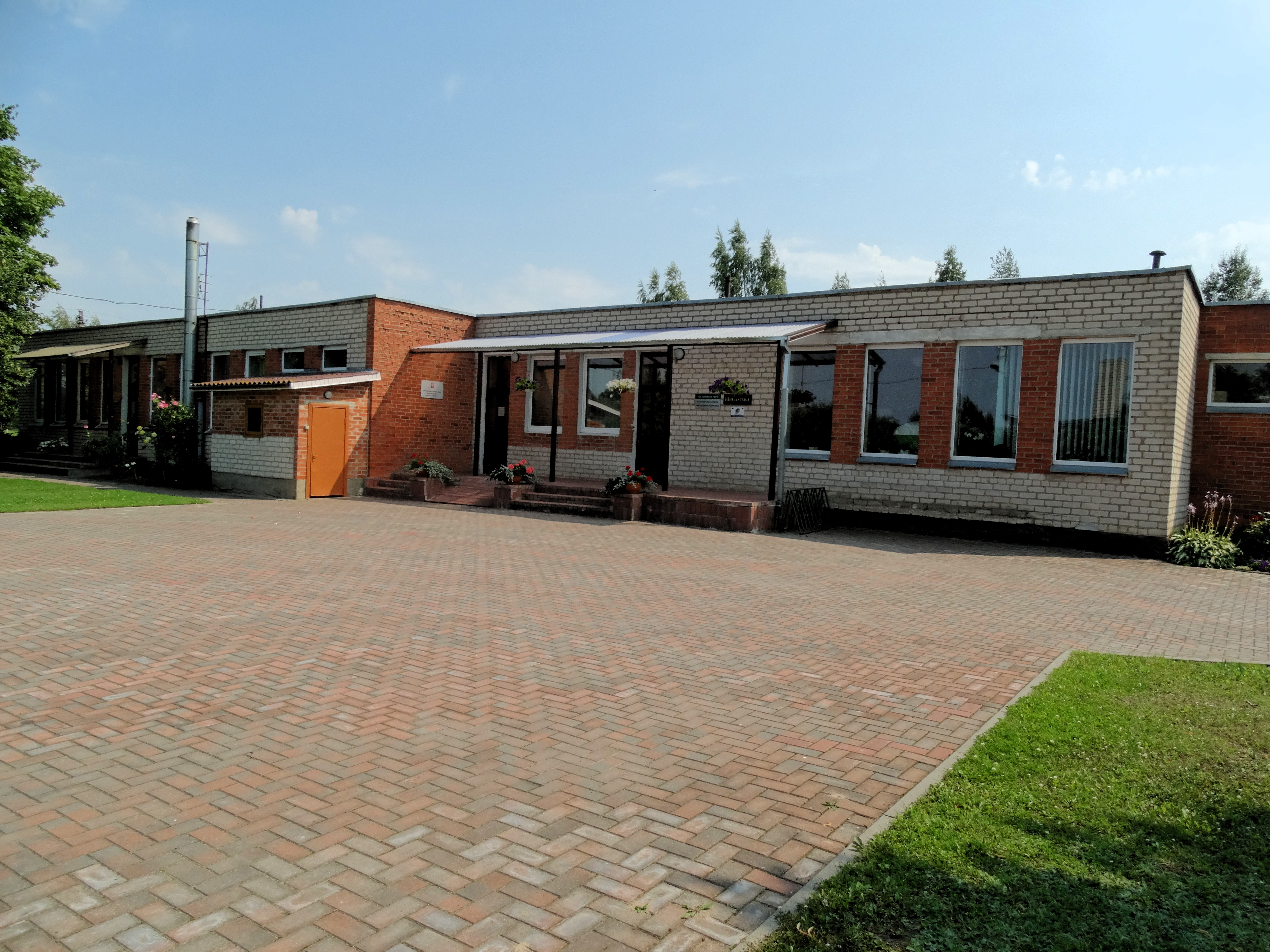 Gaižaičiai, Joniškis District, Lithuania